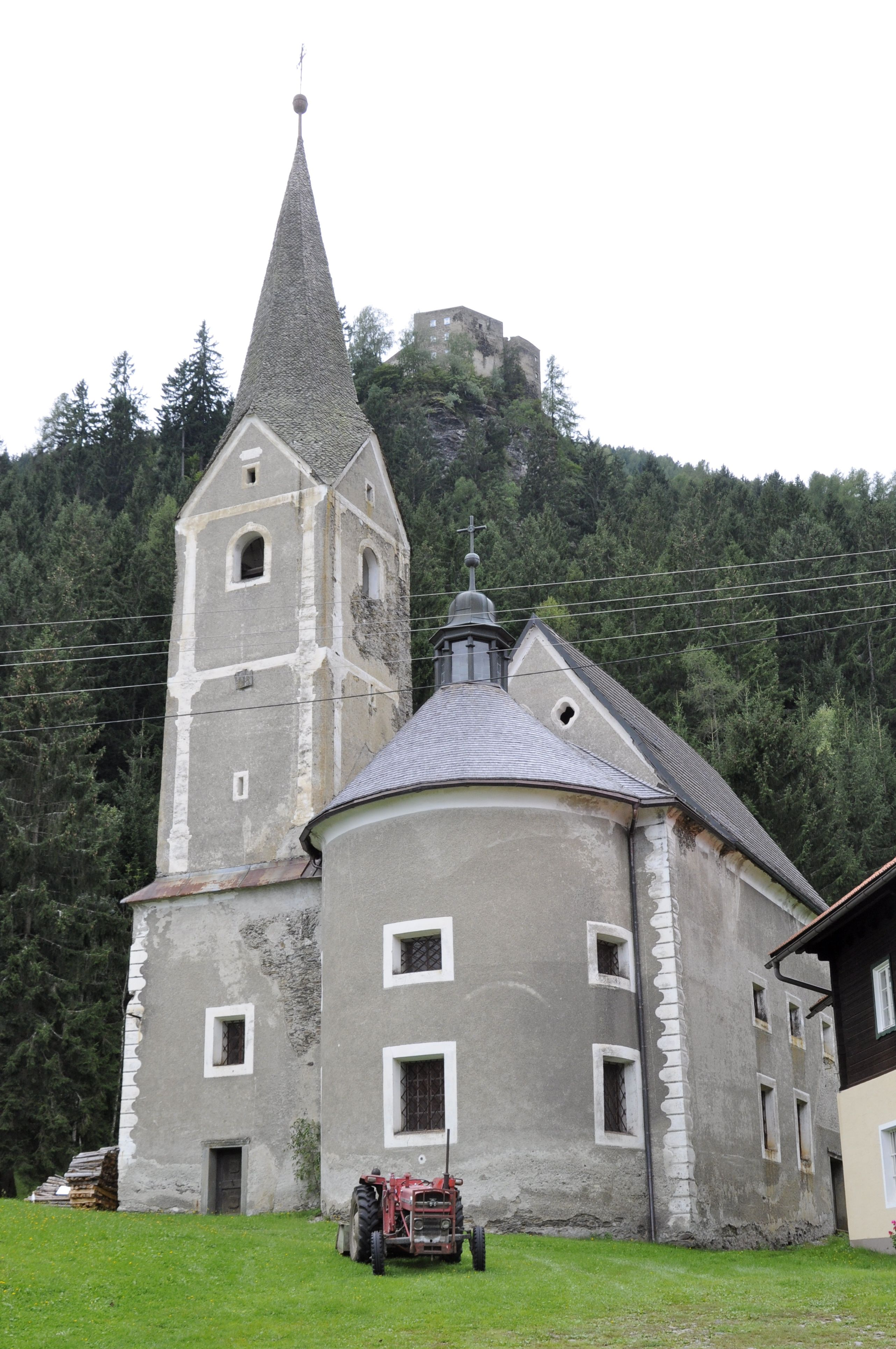 Subsidiary church Saint Oswald in Nussberg #146, municipality Frauenstein, district Sankt Veit, Carinthia, Austria, EU